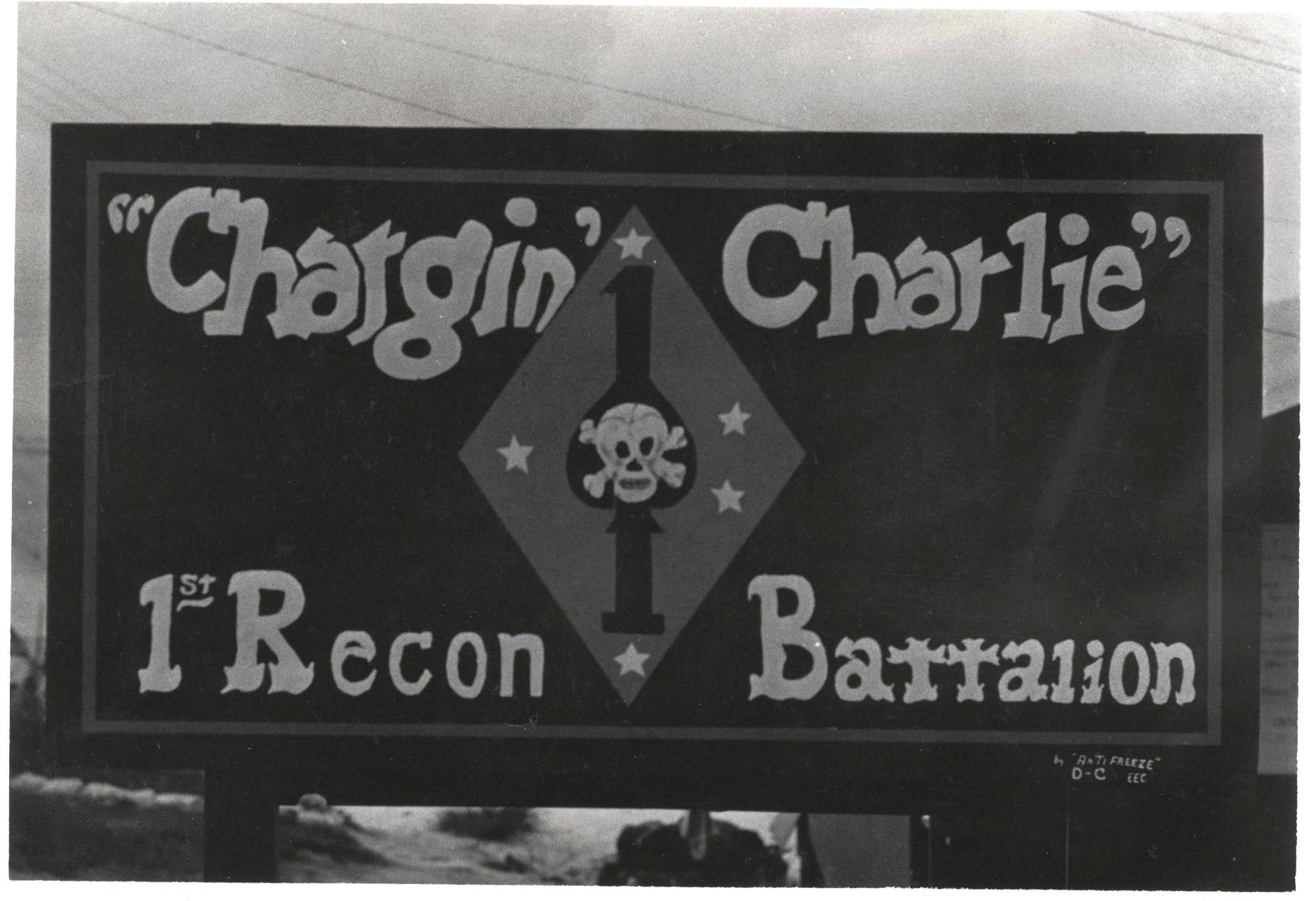 Photograph of a 1st Reconnaissance Battalion sign in Vietnam. From the collection of Michael R. Travis (COLL/5158), United States Marine Corps Archives & Special Collections